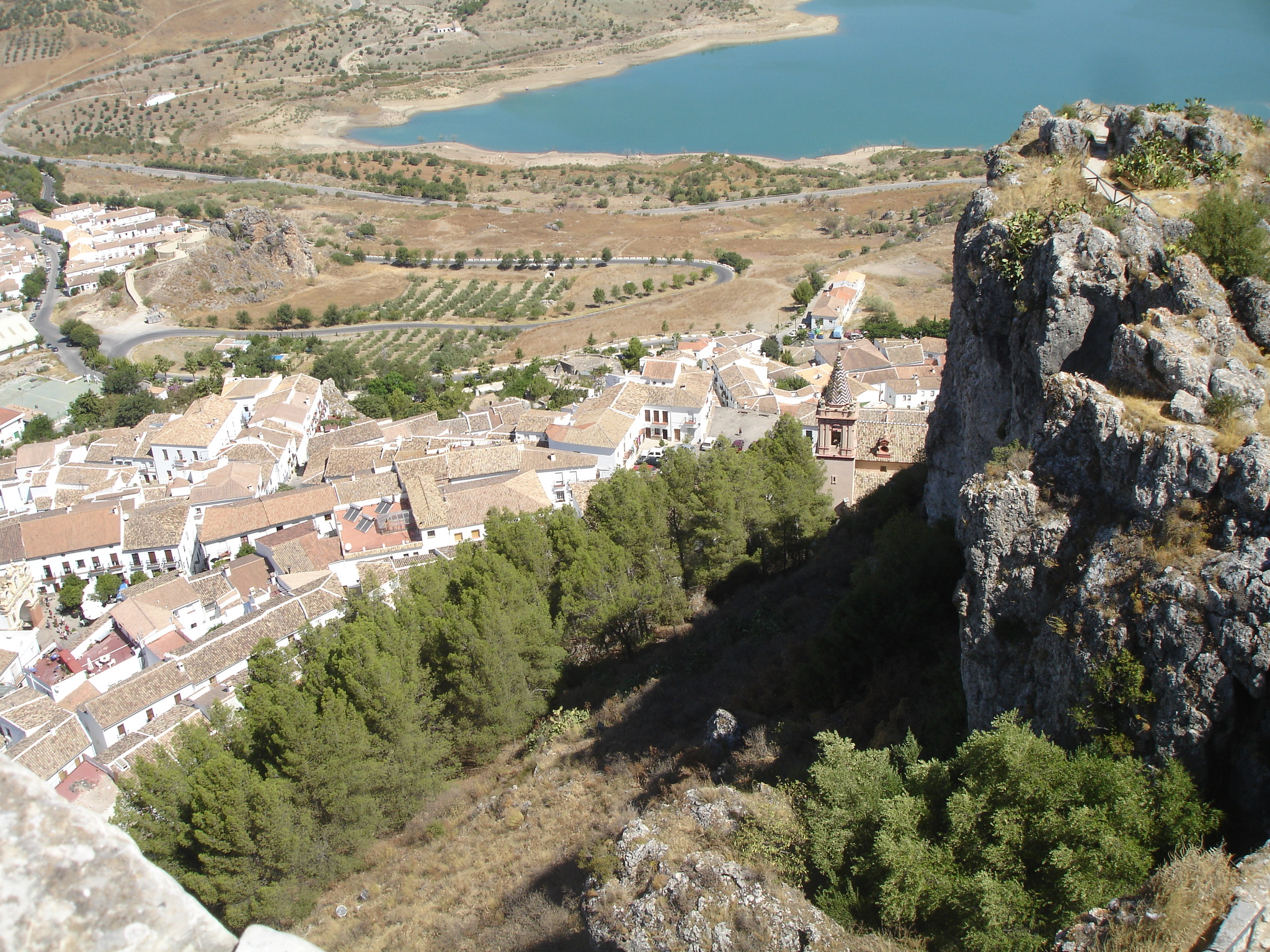 Zahara de la Sierra from its castle. Andalusia, Spain